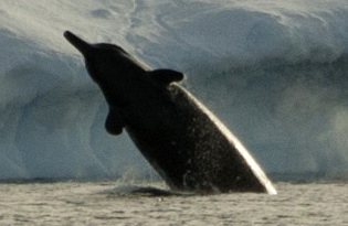 Baird's beaked whale in Antarctica